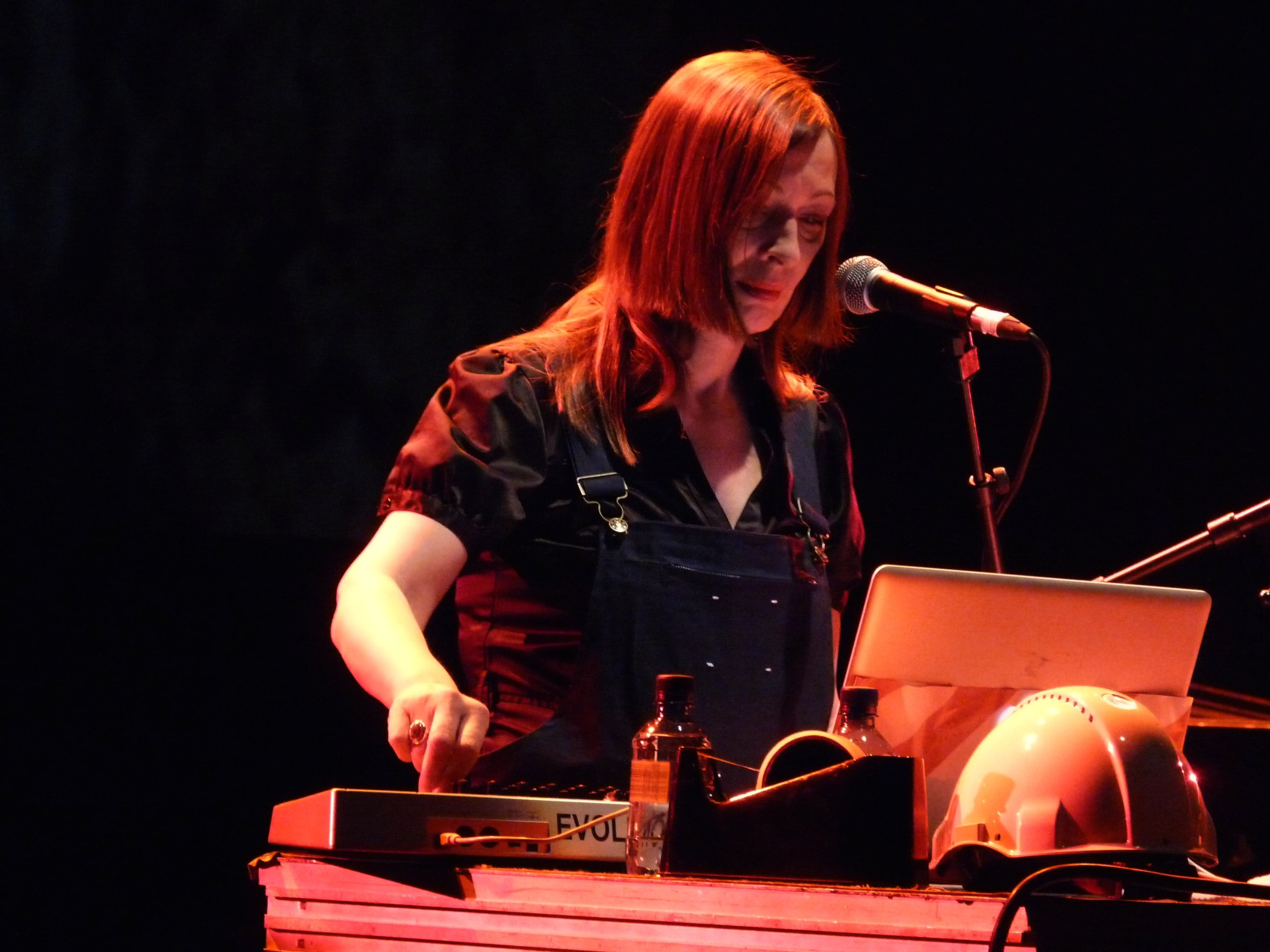 German musician Gudrun Gut at Queen Elizabeth Hall, London (together with Antye Greie, performing their album "Baustelle", see also File:Antye Greie AGF, April 2010, London.jpg)